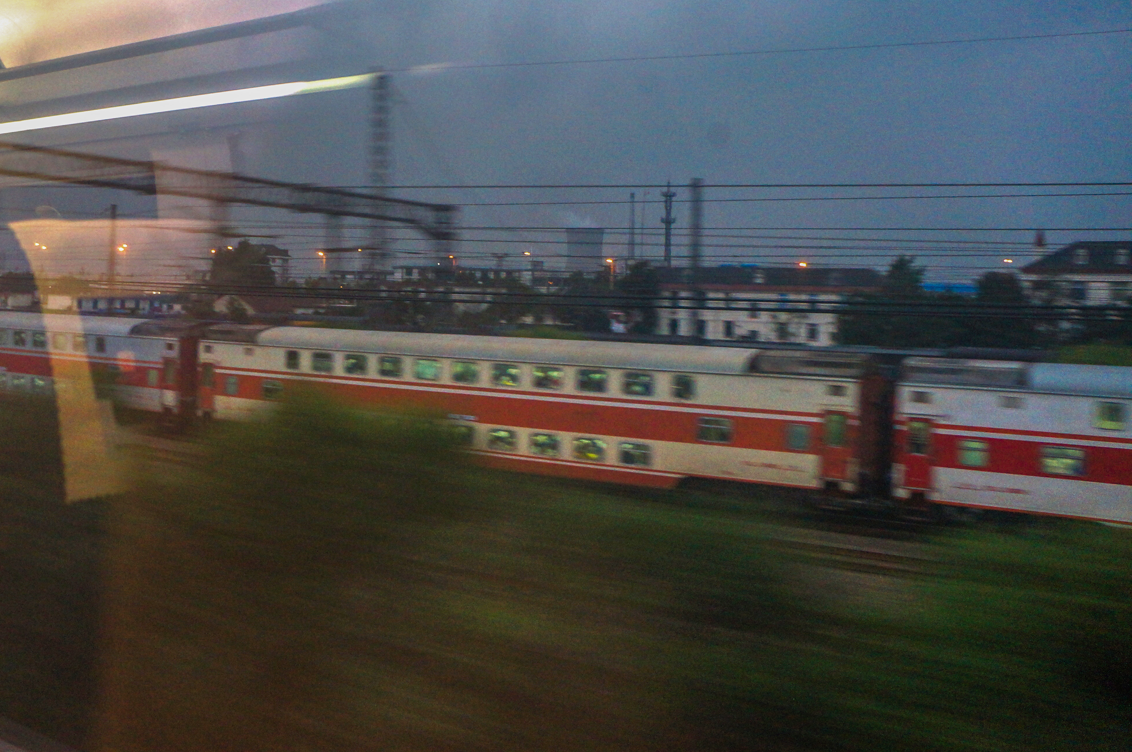 201610 K4538 (Temporary train from Shanghai to Zhengzhou) passes Suzhouxi Station, nice to see you again. Taken from G7022 which 50 min after the departure of K4038 at SHA